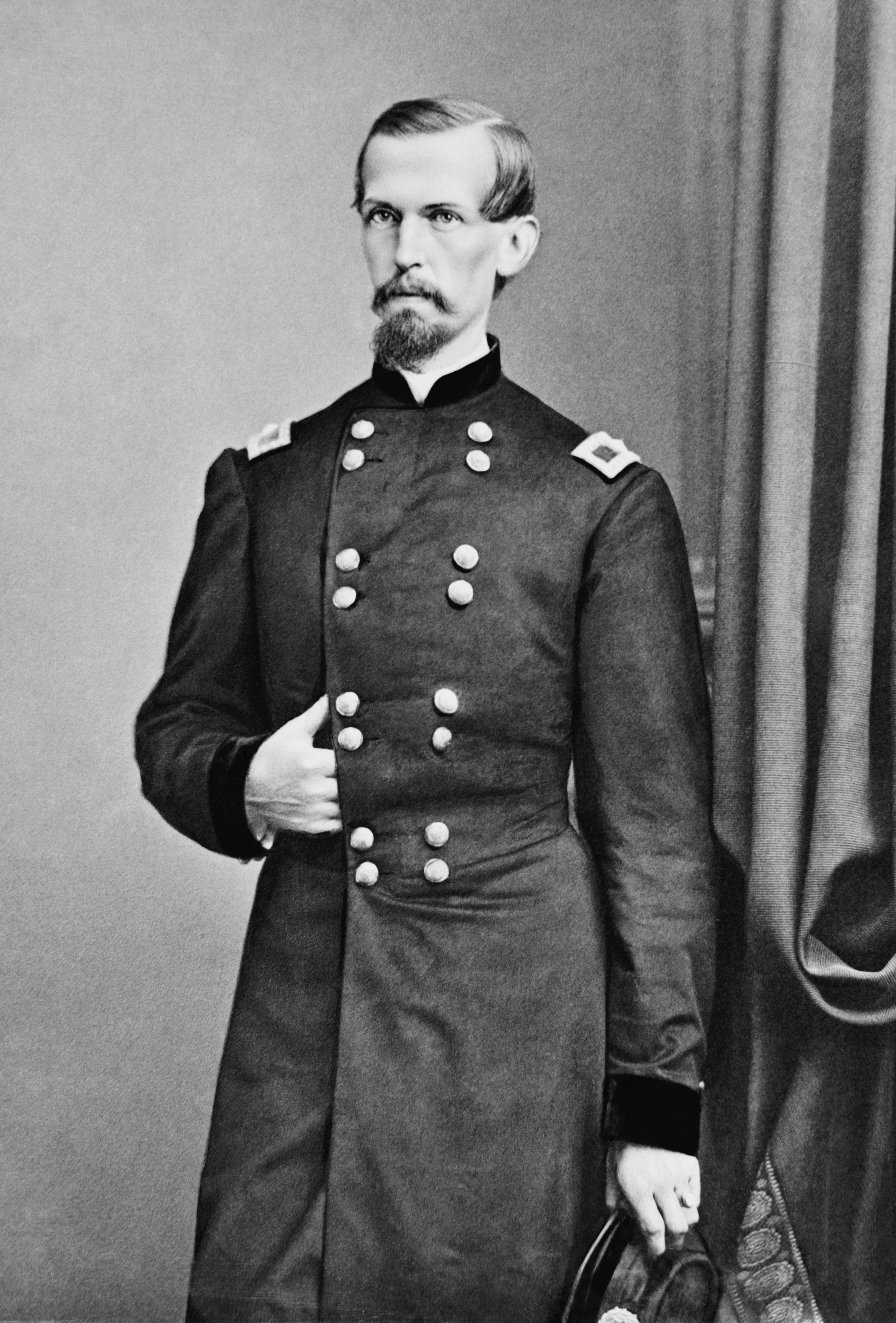 Michael Corcoran ( September 21 1827 - December 22 1863), the only child of Thomas Corcoran and Mary McDonagh, was an Irish immigrant who served in the Union army during the American Civil War.(This summary was created using Commons SumItUp)